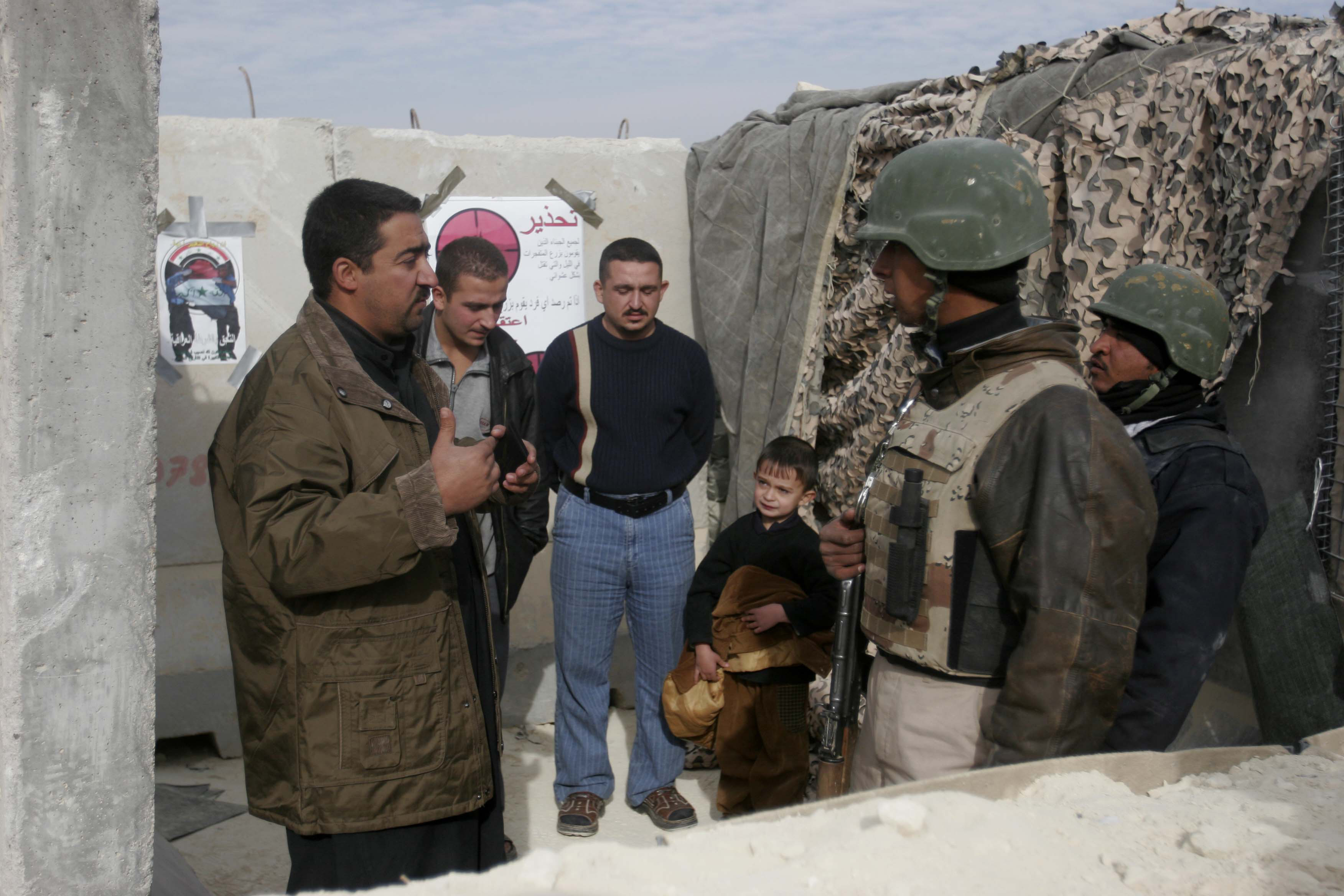 Original Caption: "On 15 December 2006, Iraqi Police officers speak with Iraqi citizens while at the Tacticle Check Point in the town of Barwanah, Iraq. 2nd Battalion, 3rd Marines is deployed with Regimental Combat Team 7, I Marine Expeditionary Force (FWD) in support of Operation Iraqi Freedom in the Al Anbar Province of Iraq (MNF-W) to develop the Iraqi Security Forces, facilitate the development of official rule of law through democratic government reforms, and continue the development of a market based economy centered on Iraqi Reconstruction..(U.S. Marine Corps Photo by Cpl Andrew D. Young)(RELEASED)"